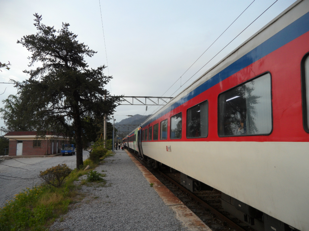 Platform of Bangok Station